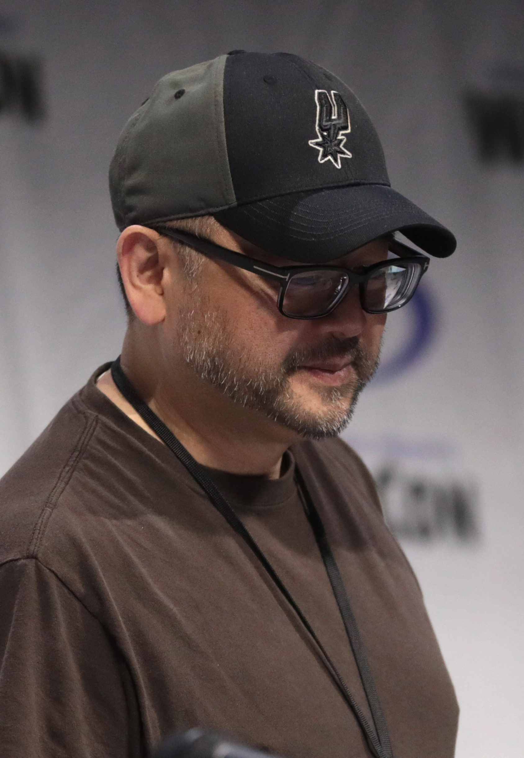 Sam Liu at the 2019 WonderCon in Anaheim, California.